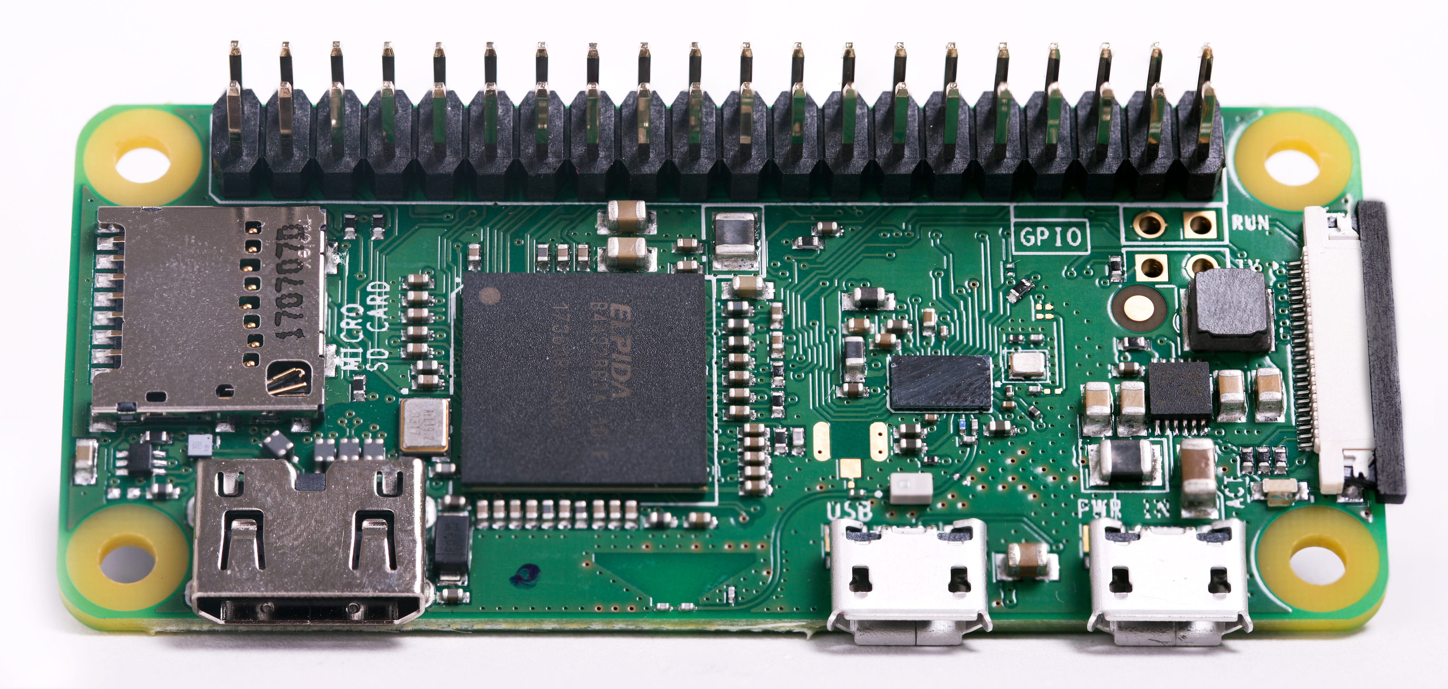 A Raspberry Pi Zero WH, with pre-soldered headers